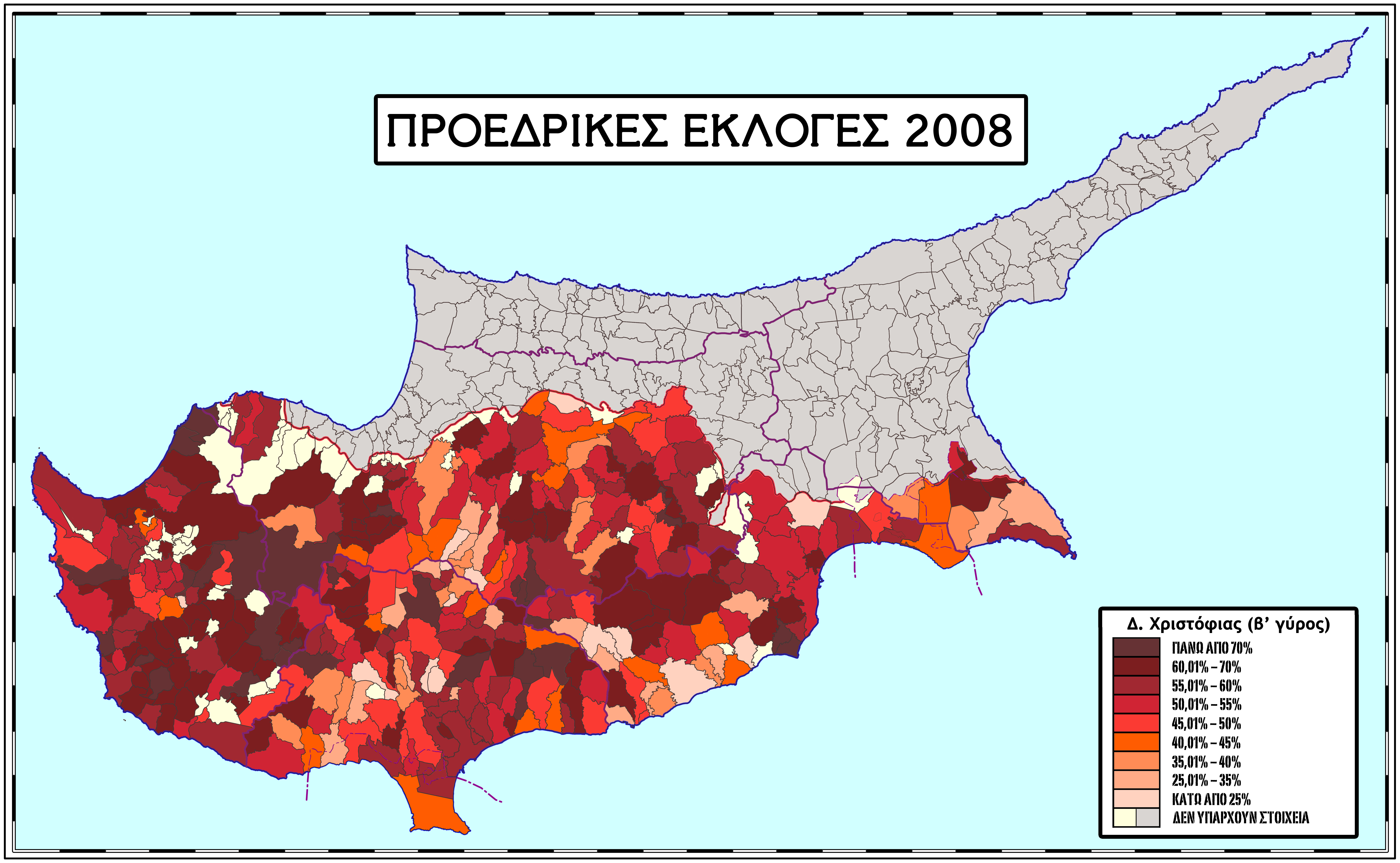 D. Christophias' percentages during the second round of the presidential elections in Cyprus, 24 February 2008